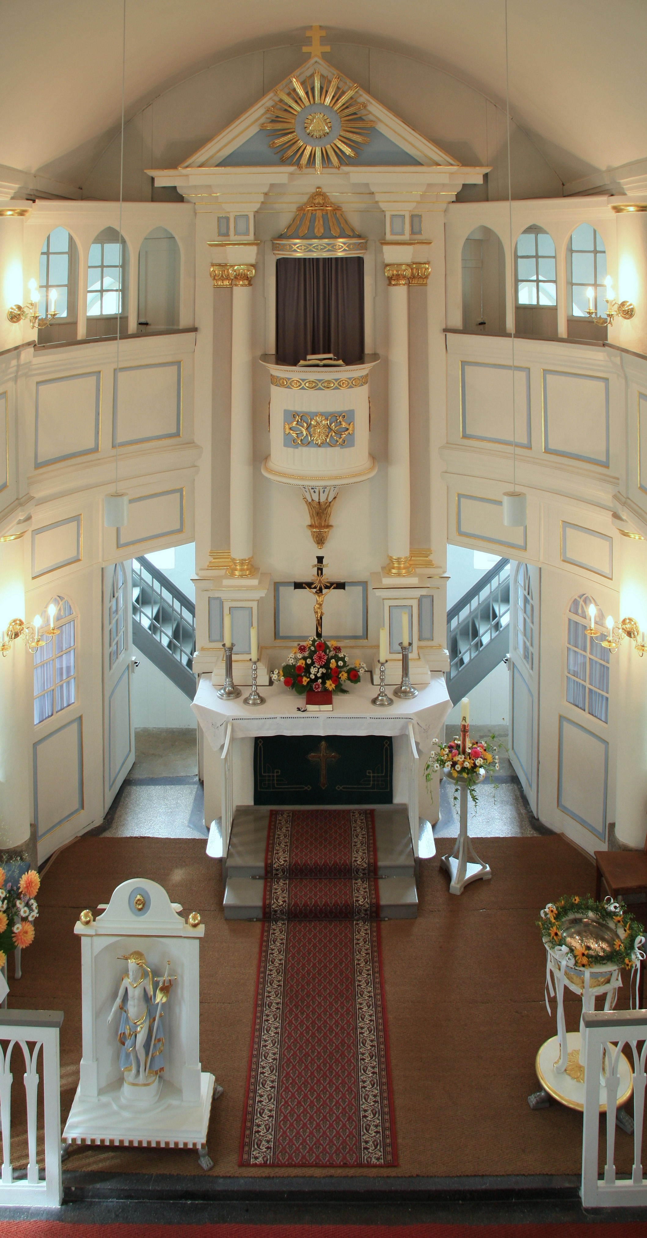 Martin Luther Church Oberpfannenstiel, Altar